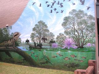 mural in Elizabeth St, Croydon, NSW, just up the road from Ashfield pool